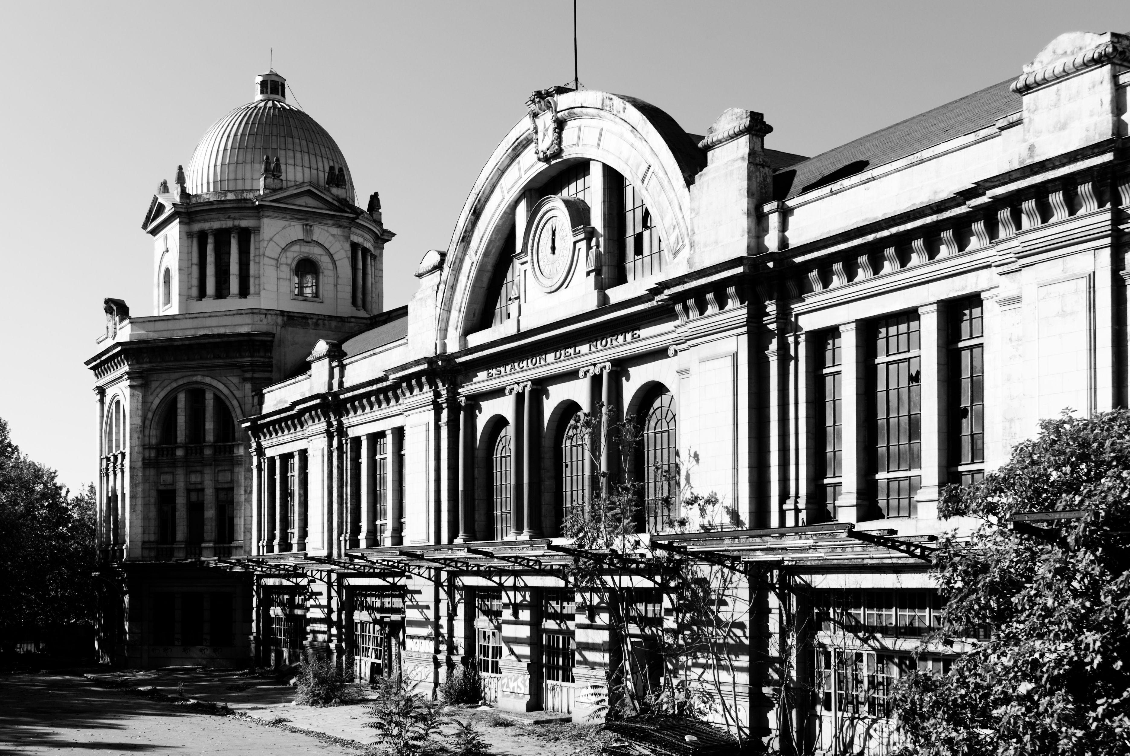 Black and white picture of the main entrance of the old "North Station" of Madrid.